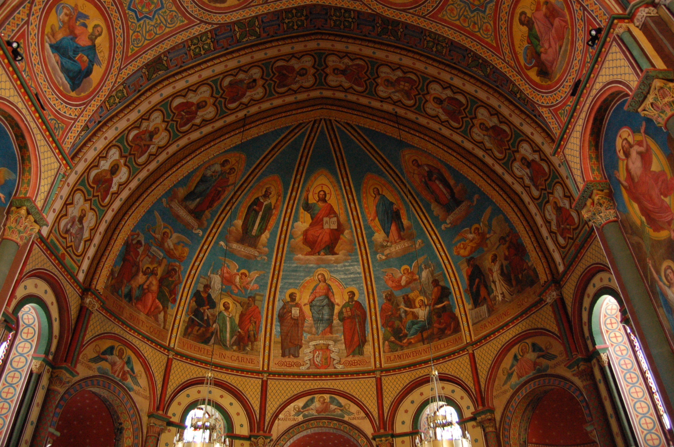 Inside of Saint-Caprais Cathedral, Agen, France